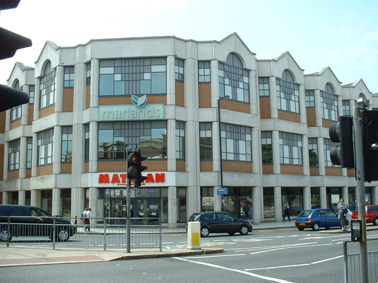 The Mall Marland's heavily criticised 'Lego' facade.